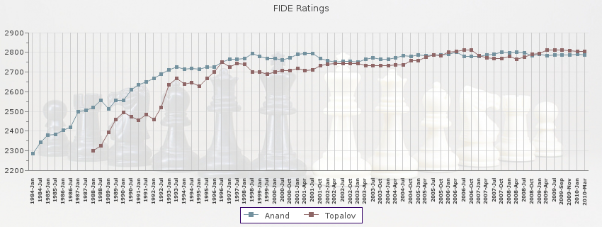 Anand vs. Topalov